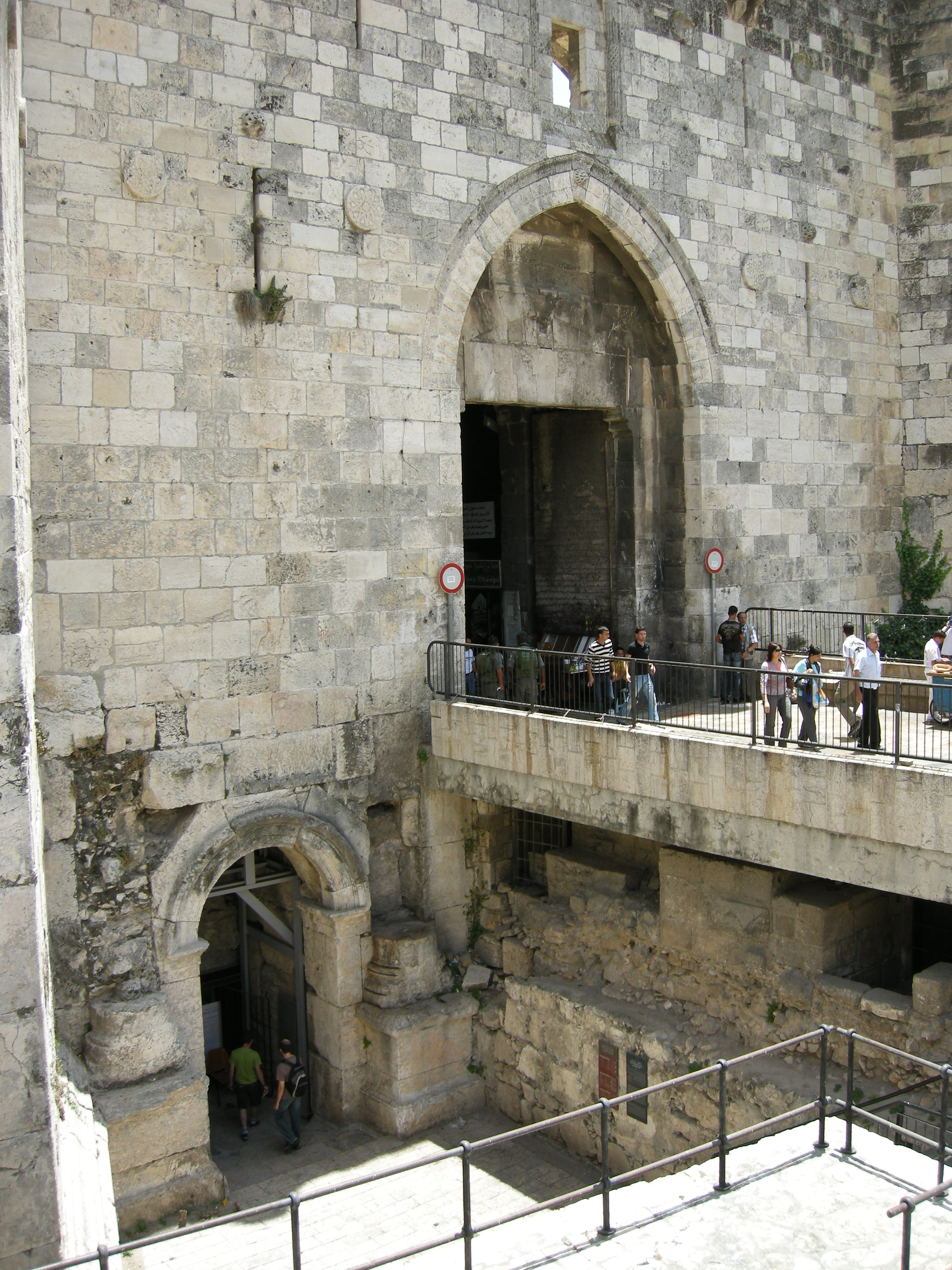 Siur_wikipedia_in__Jerusalem